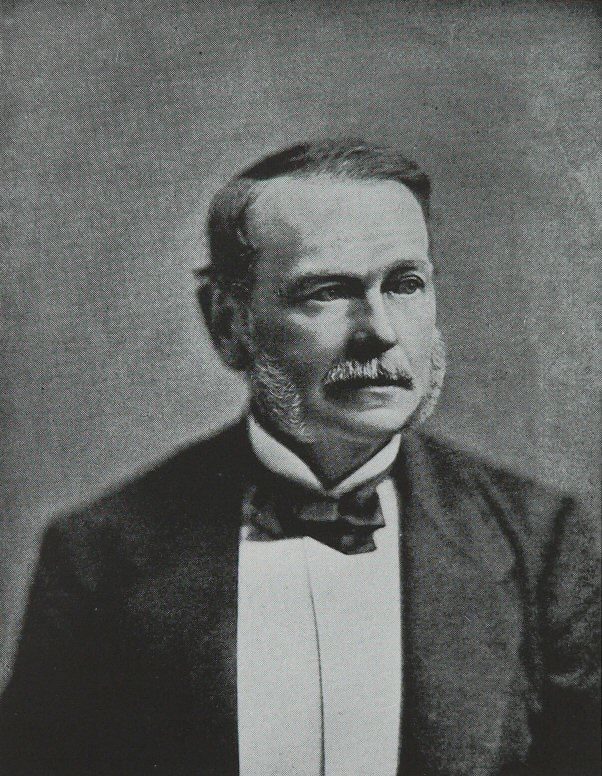 Daniel Heinrich Mumm von Schwarzenstein (1818-1890), Mayor of Frankfurt am Main, Germany, from 1868 to 1880